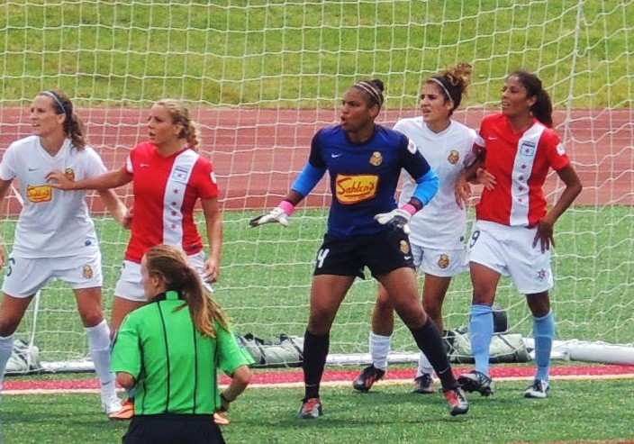 2013-07-04; Adrianna Franch defending a corner kick in Chicago Red Stars vs Western New York Flash